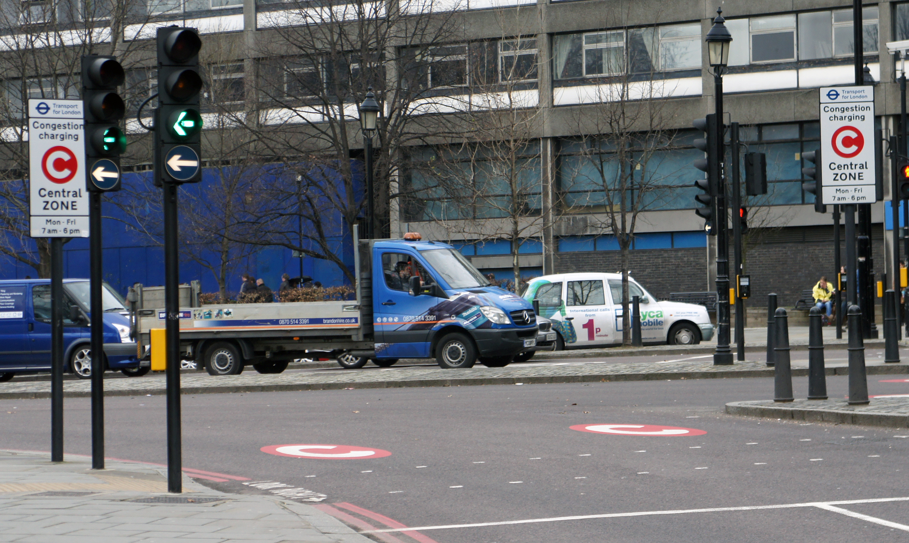 Vertical and horizontal signs at the Tower Hill (A100) entrance of the London Congestion Charge Zone